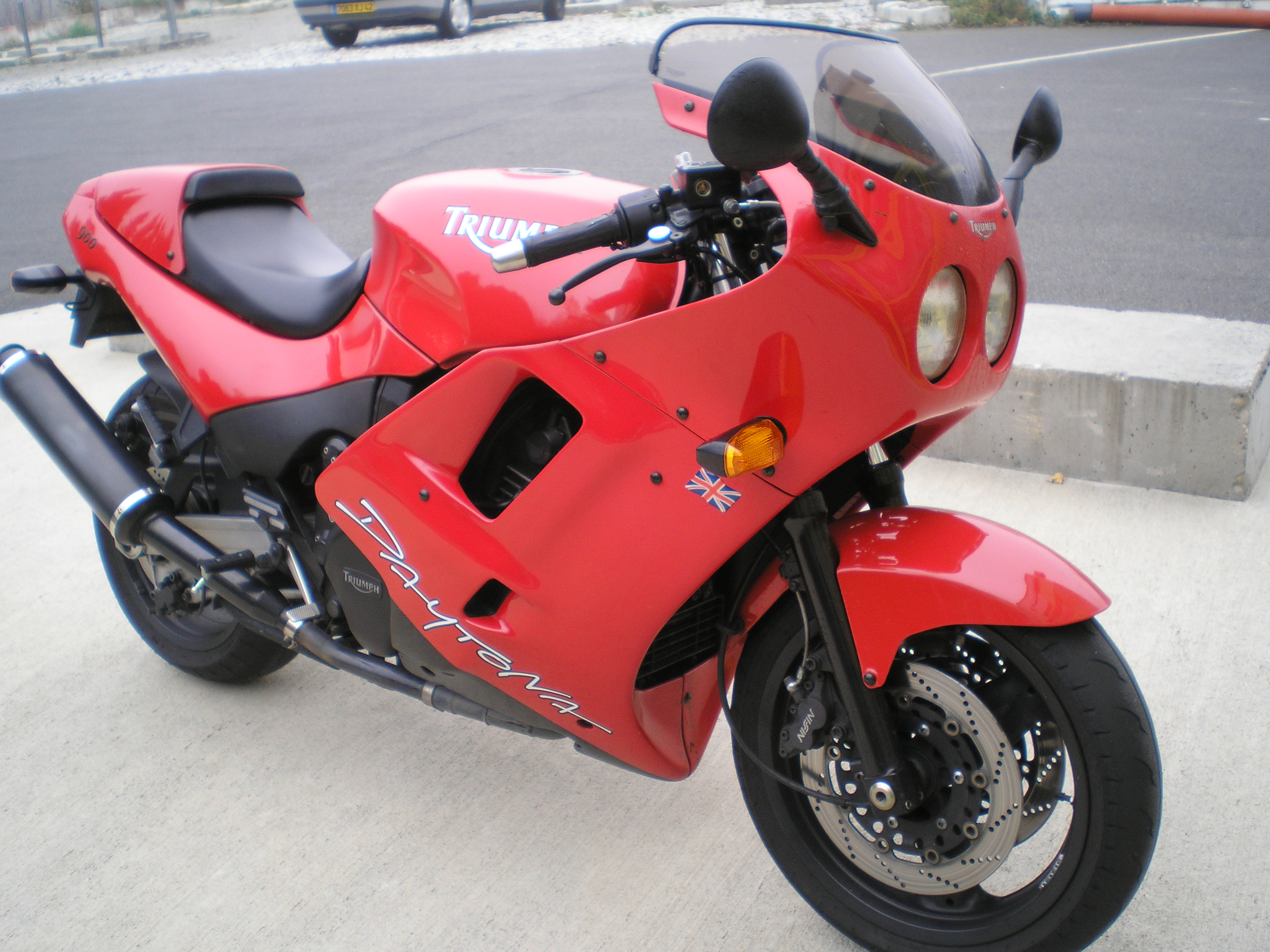 Triumph 900 Daytona Pimento Red